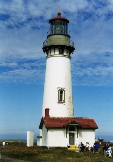 Yaquina Head Lighthouse, Oregon Taken by Elf